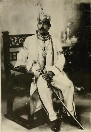 Raja Vikram Deo IV, Zamindar of Jeypore